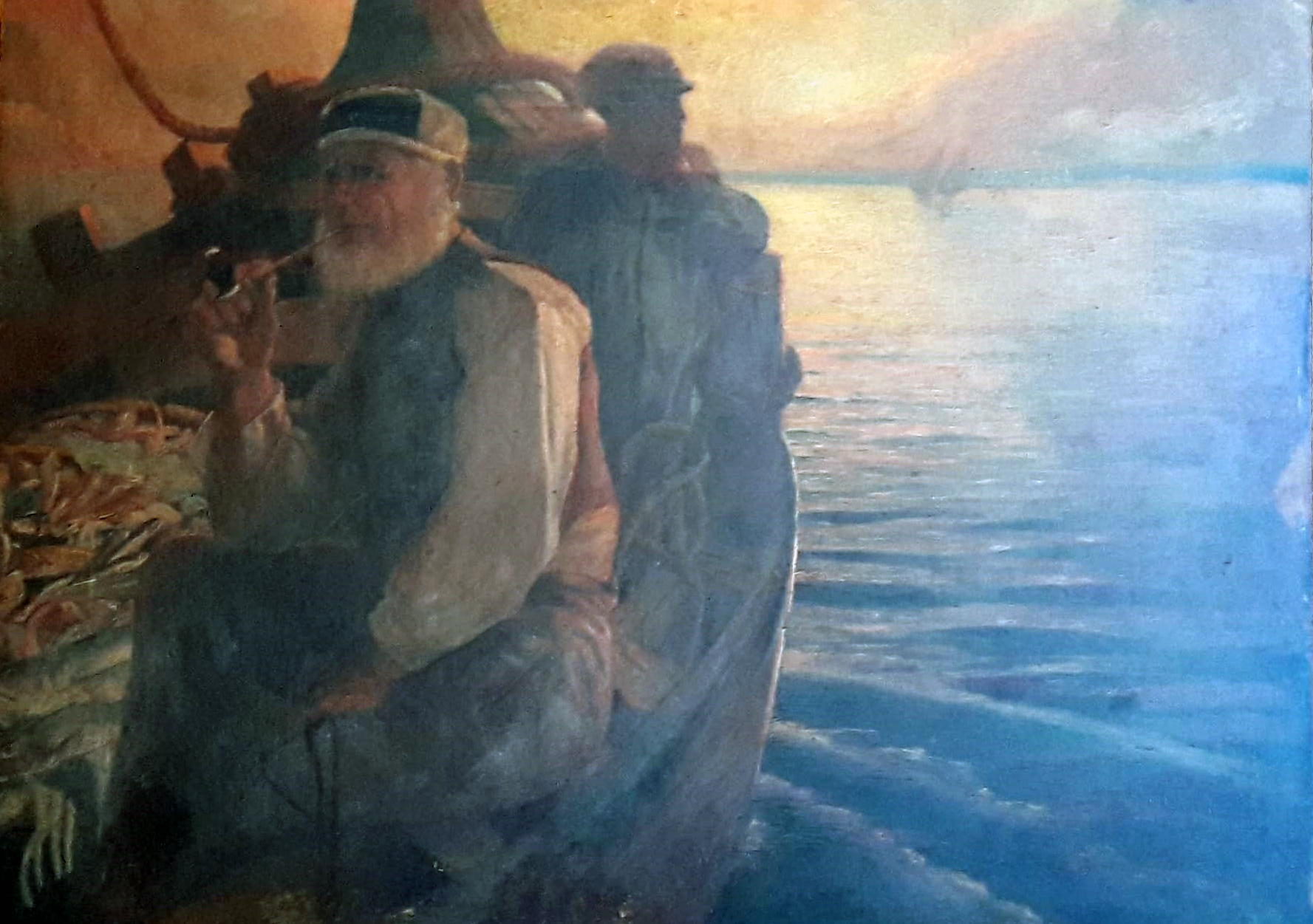 Fishermen, oil on board, private collection